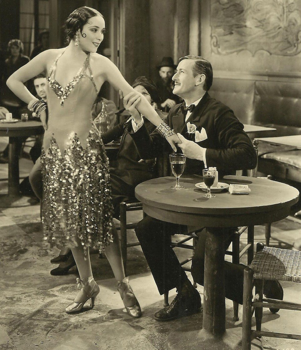 Dolores del Río and Ullrich Haupt, Sr. in The Bad One (1930) - publicity still (cropped).